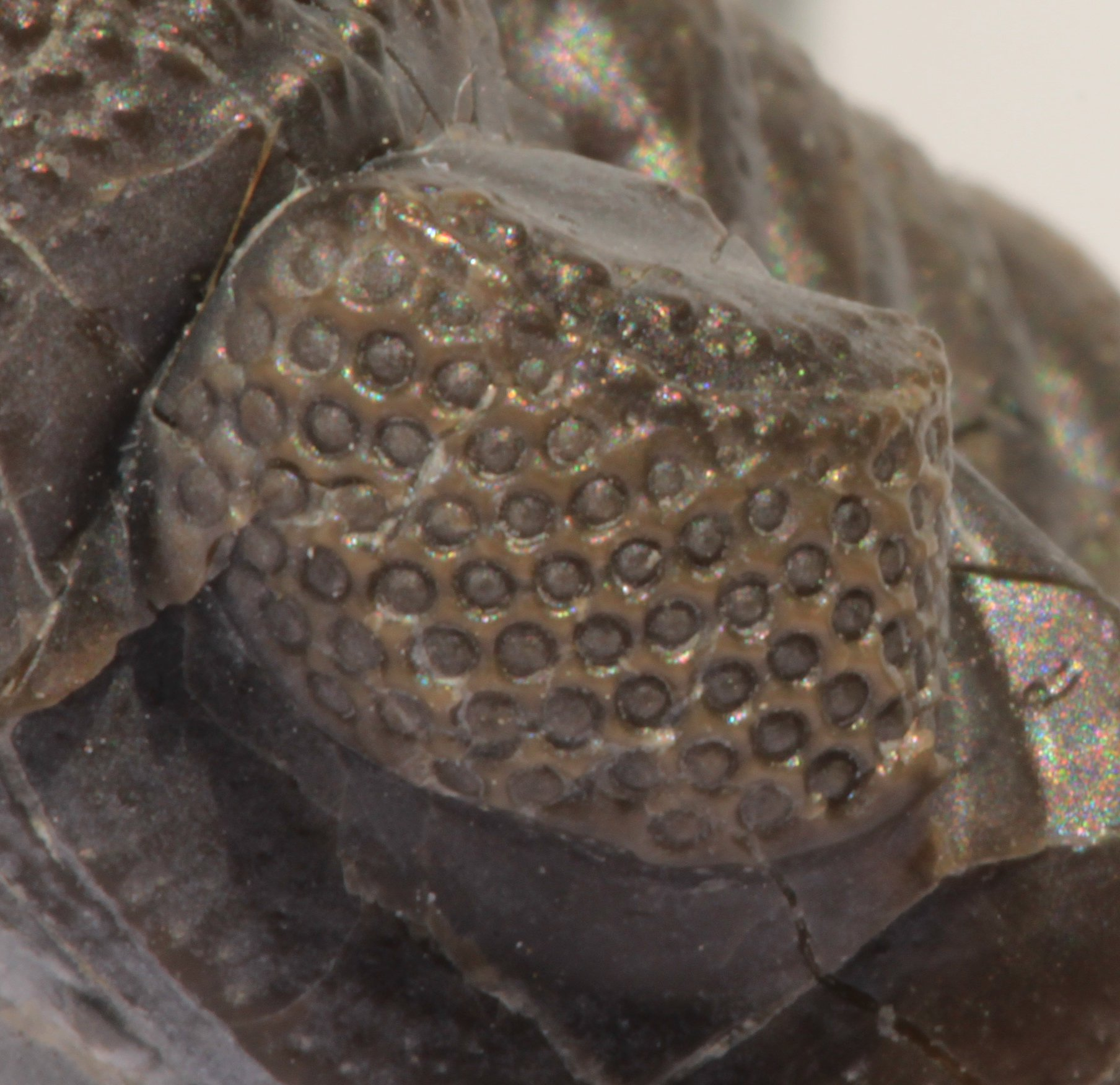 A schizochroal schizochroal eye of the trilobite Phacops rana, eye dimensions 8mm across by 5.5mm high, found near Sylvania, Ohio, USA, from the Devonian